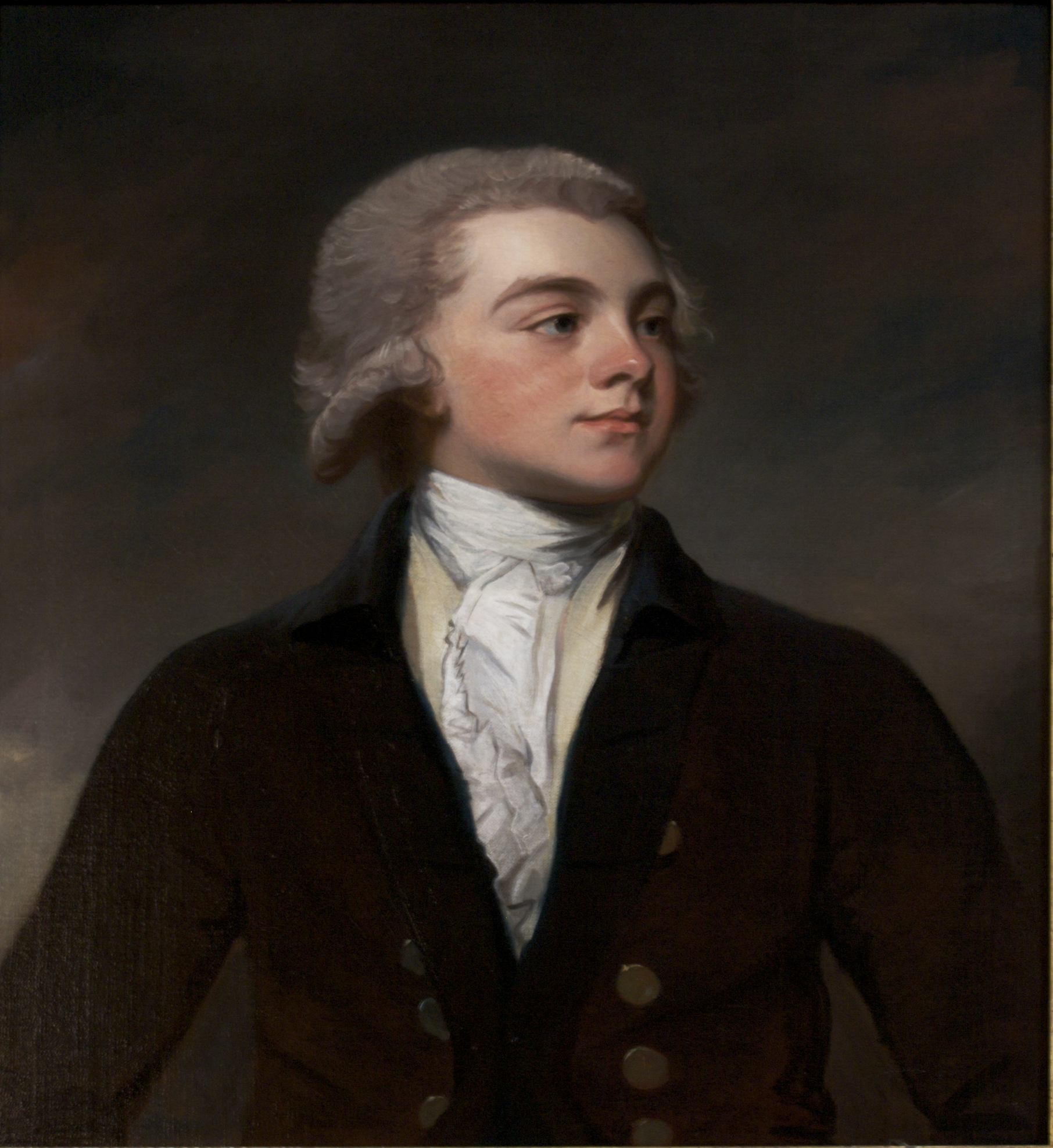 James Clitherow (IV) 1766 — 1841. Owner of Boston Manor House and the Boston Manor estate. Friend of William IV and Queen Adelaide. Painting by George Romney 1784. Currently owned by the London Borough of Hounslow.